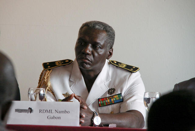 09/13/2010 - Gabon Navy Rear Adm. Herve Nambo, the director general of employment, training and international relations for the Gabonese Ministry of Defense, sits behind a table while participating in a media roundtable during the Africa Partnership Station (APS) West planning conference in Libreville, Gabon, Sept. 13, 2010.